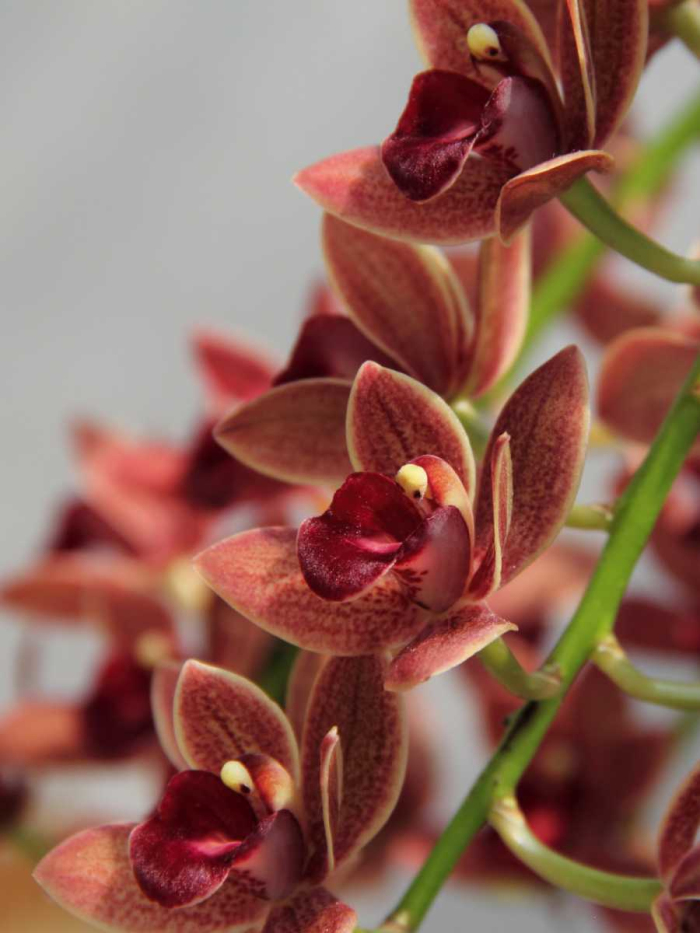 I am from China, but some of my families lives in Nepal or North India. My height is about 25~80 cm and my flower's diameter is about 6 cm. For people make us marrage with other orchids, so some of my families get the characteristic of others. We may have some different features but we are sure the same species. Through this way, we may have much more beautiful flowers, and you may have a chance to enjoy them during Mar to May. May you be happy for meeting me.